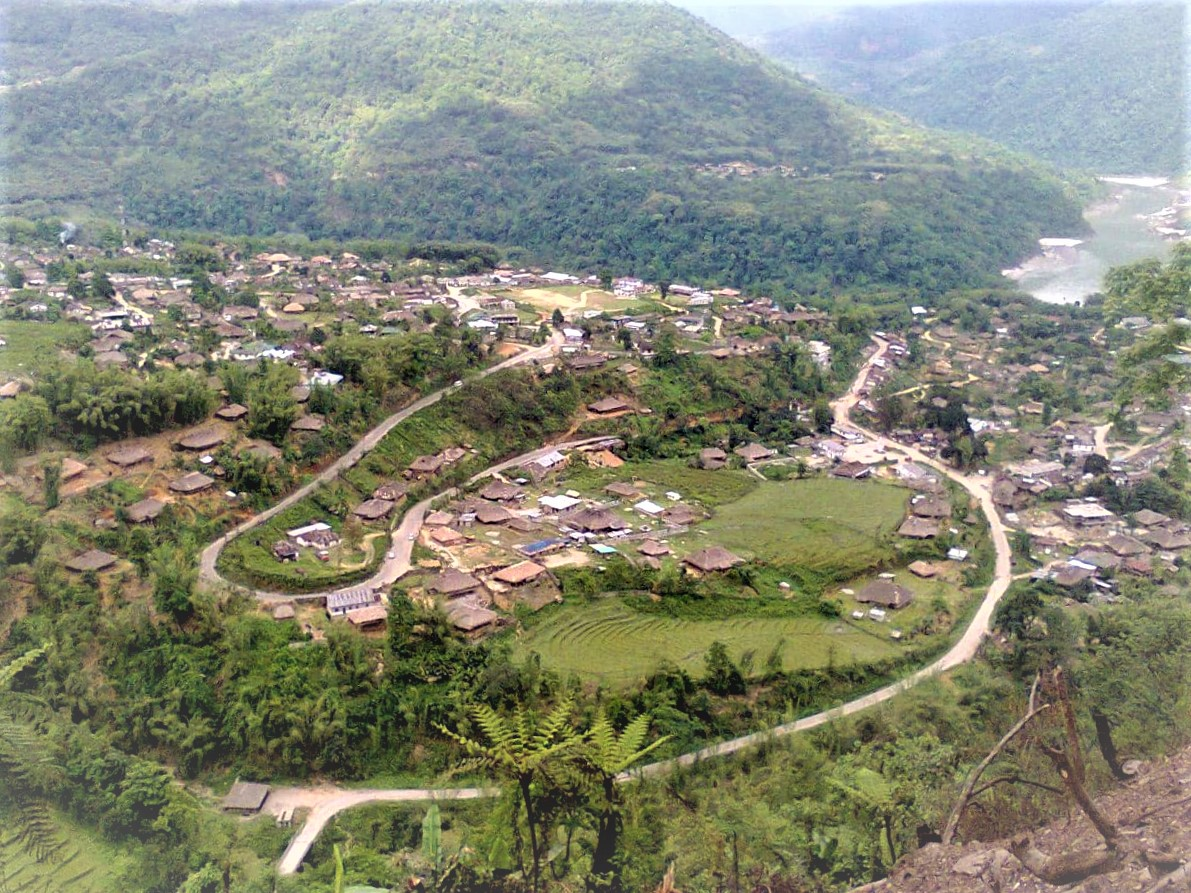 This photo has been taken in the country: India